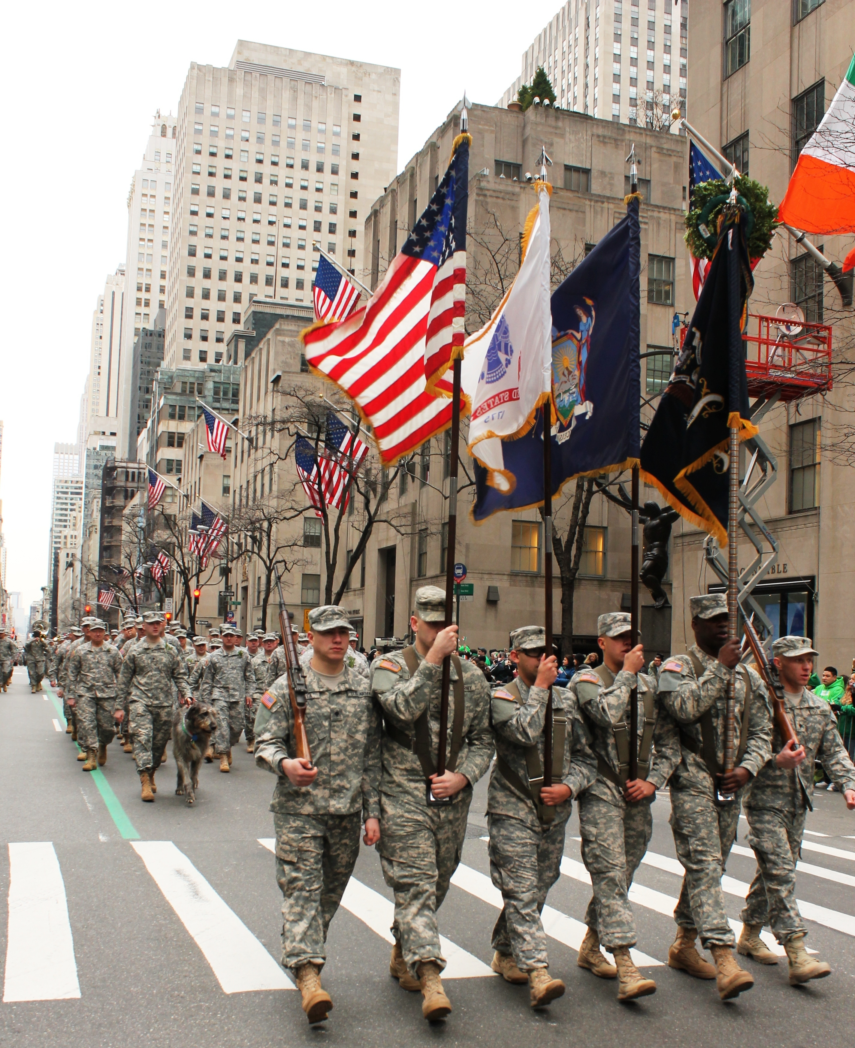 U.S. Soldiers with the color guard of the 1st Battalion, 69th Infantry Regiment, New York Army National Guard lead the New York City St. Patrick's Day Parade up 5th Avenue in New York March 16, 2013. The battalion has led what has become the world's largest St. Patrick's Day event every year since 1851.